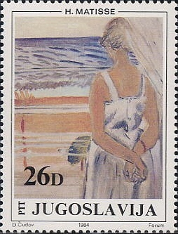 At the Window by Henri Matisse